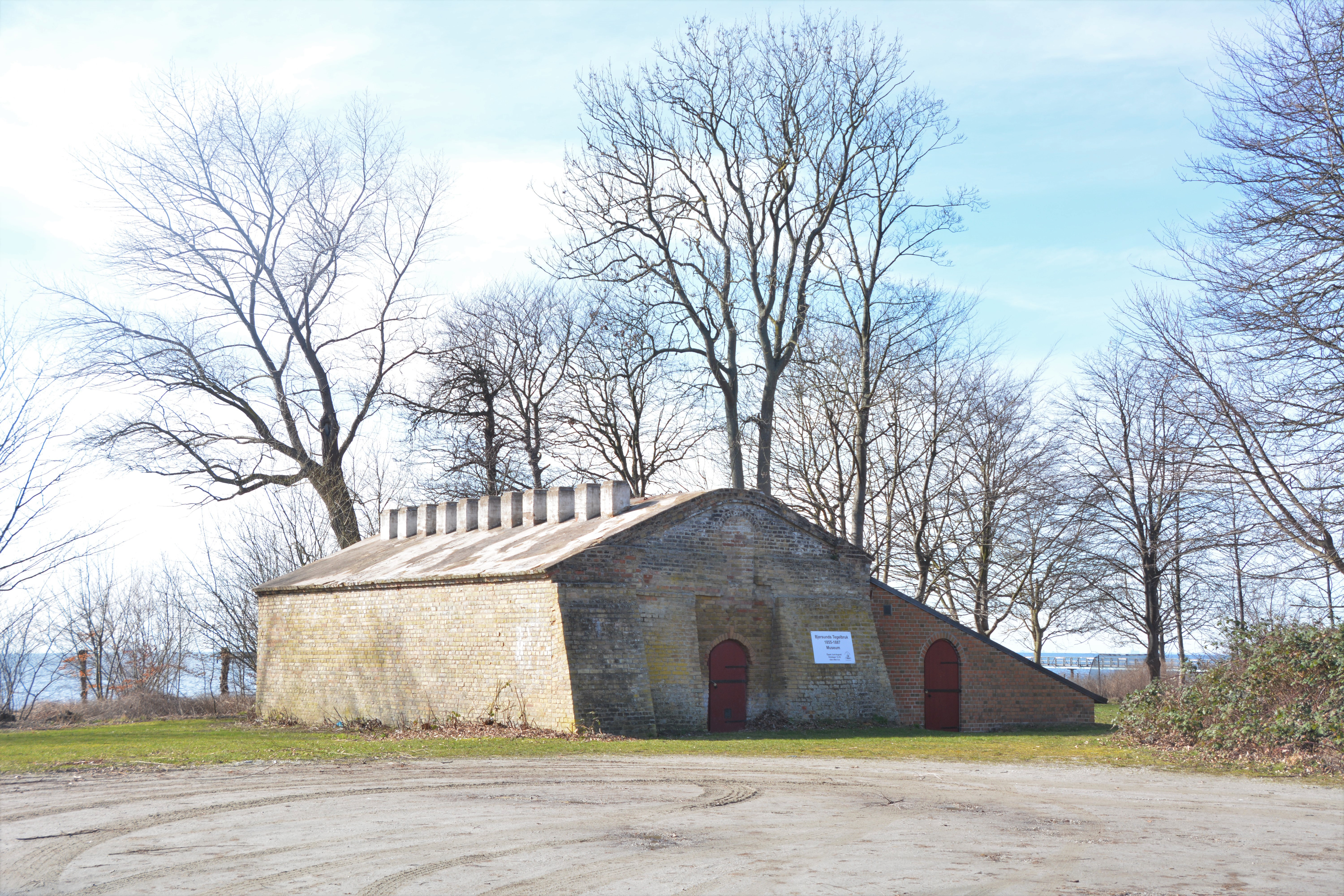 Bjersund brickworks